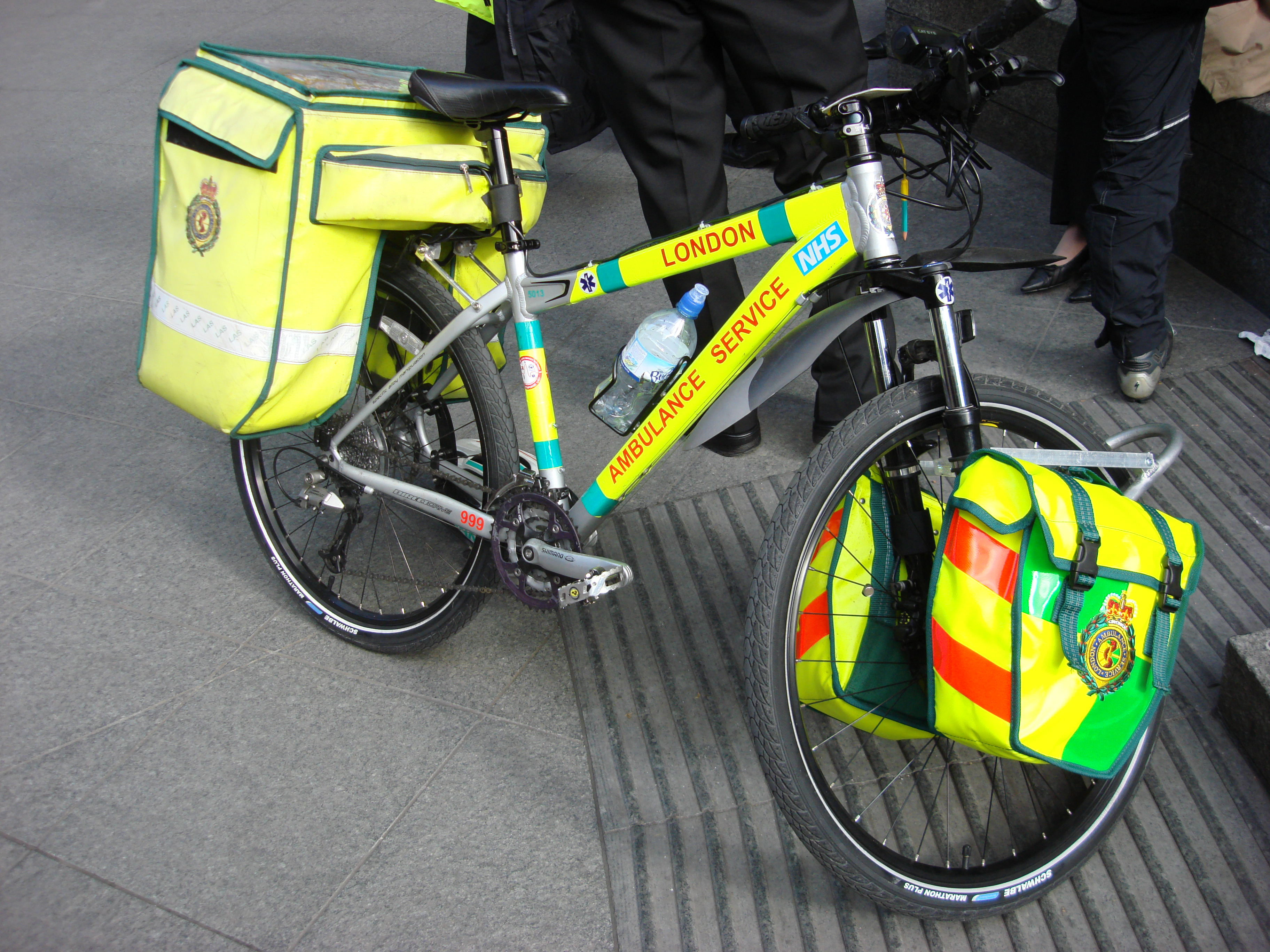 An NHS, London Ambulance Service paramedics pedal bicycle